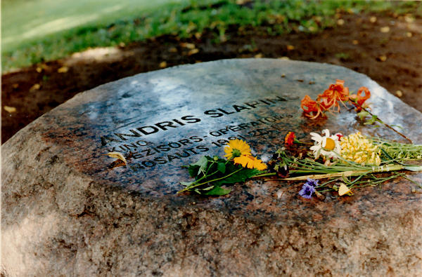 Andris Slapins memorial in Riga's canal park by Bastejkalns (Bastion Hill). Juris Podnieks' film crew came under fire by Soviet Black Beret troops who were attacking the Interior Minstry building and Latvians burning bonfires and singing songs of independence. Both Andris Slapins and Gvido Zvaigzne were killed. Witnesses report they were not in direct line of fire and were deliberately targeted.